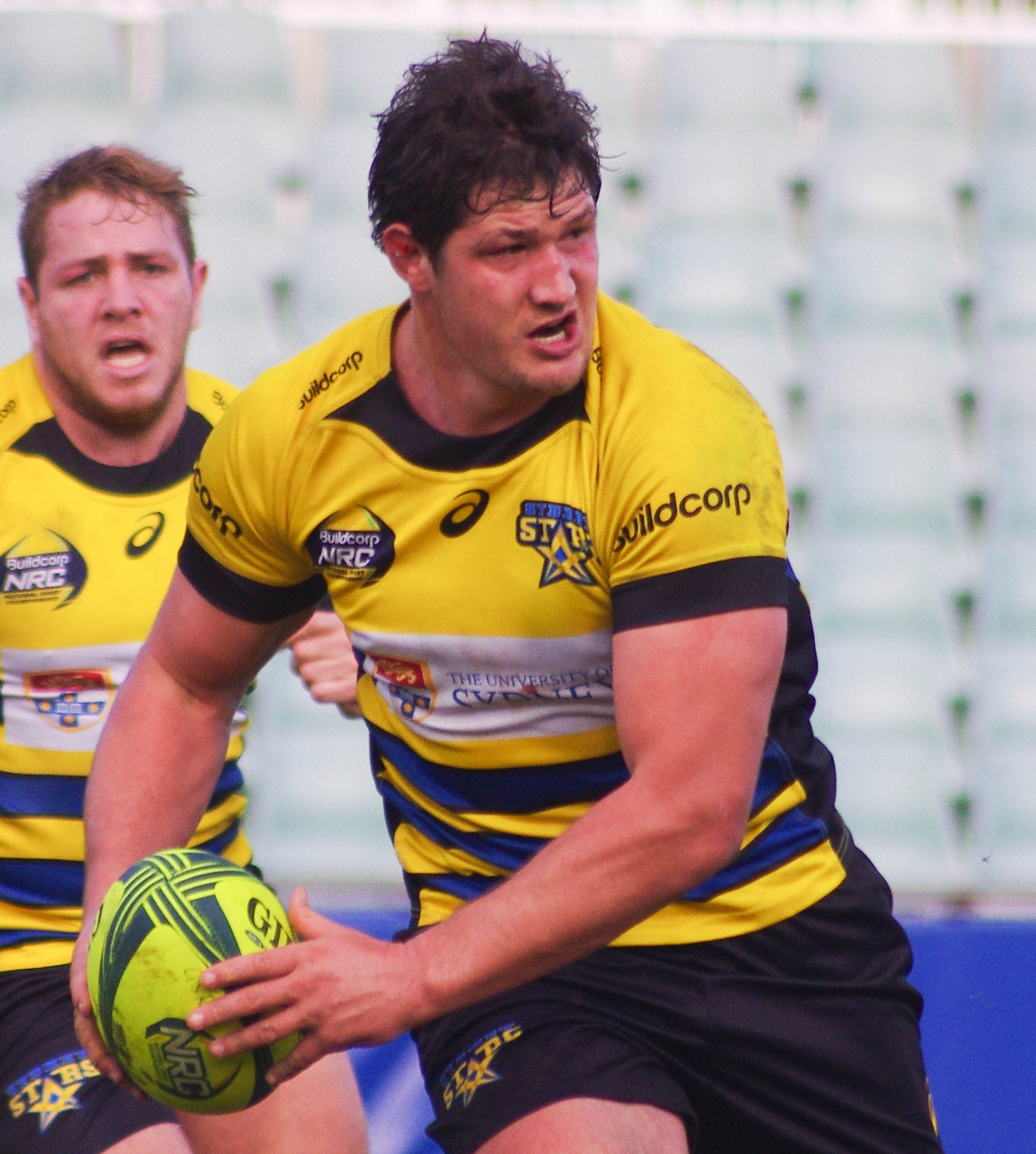 Australian rugby union player Jeremy Tilse.